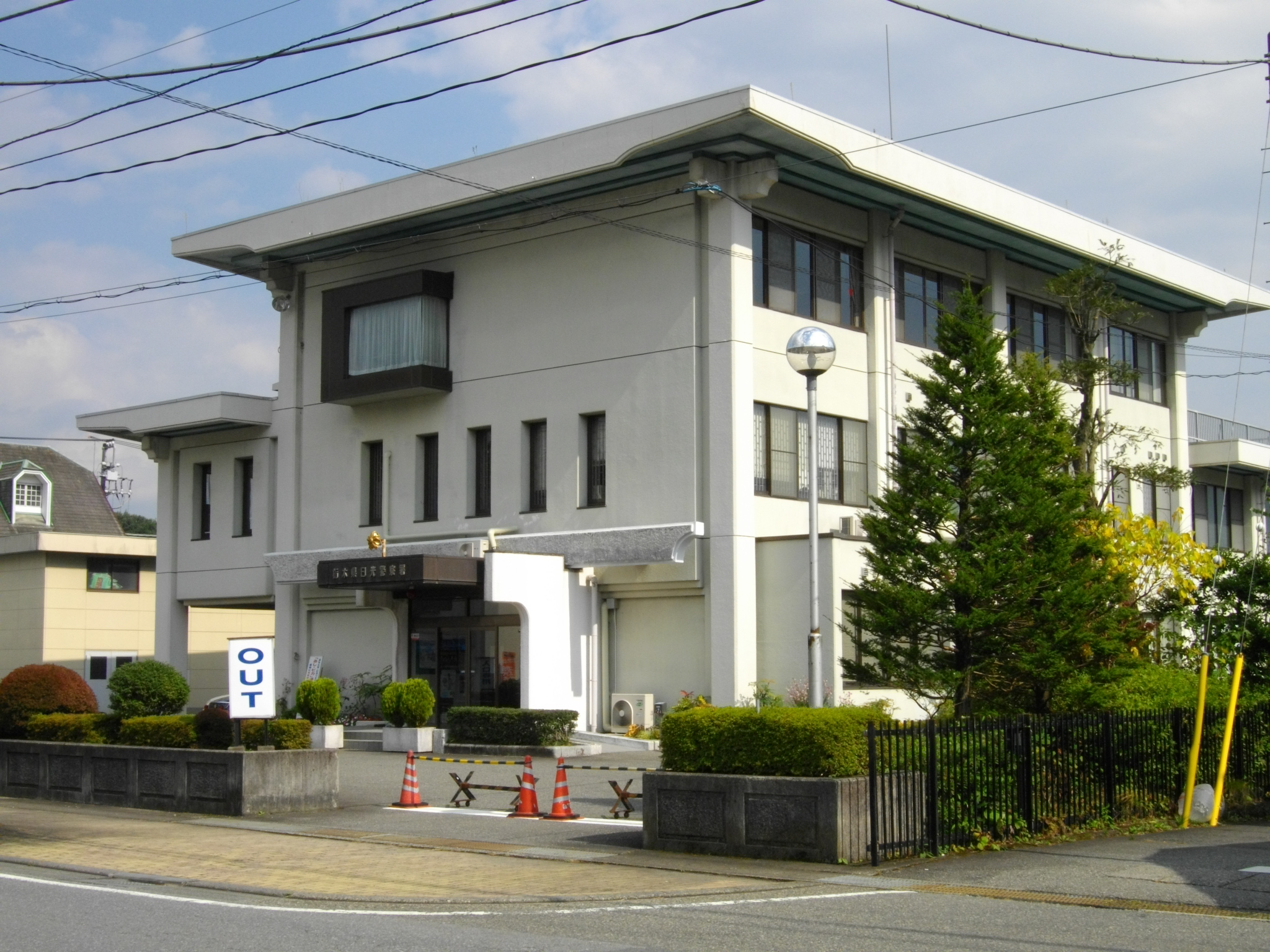 Nikko Police Station